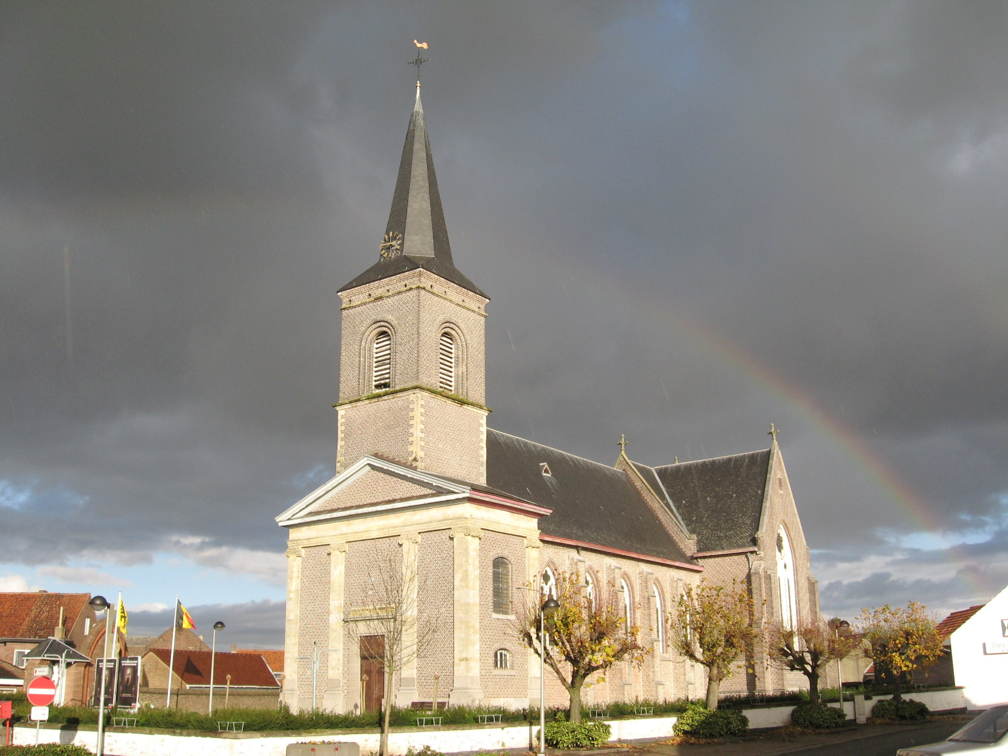 Church of Saint Peter in Elen, Dilsen-Stokkem, Limburg, Belgium